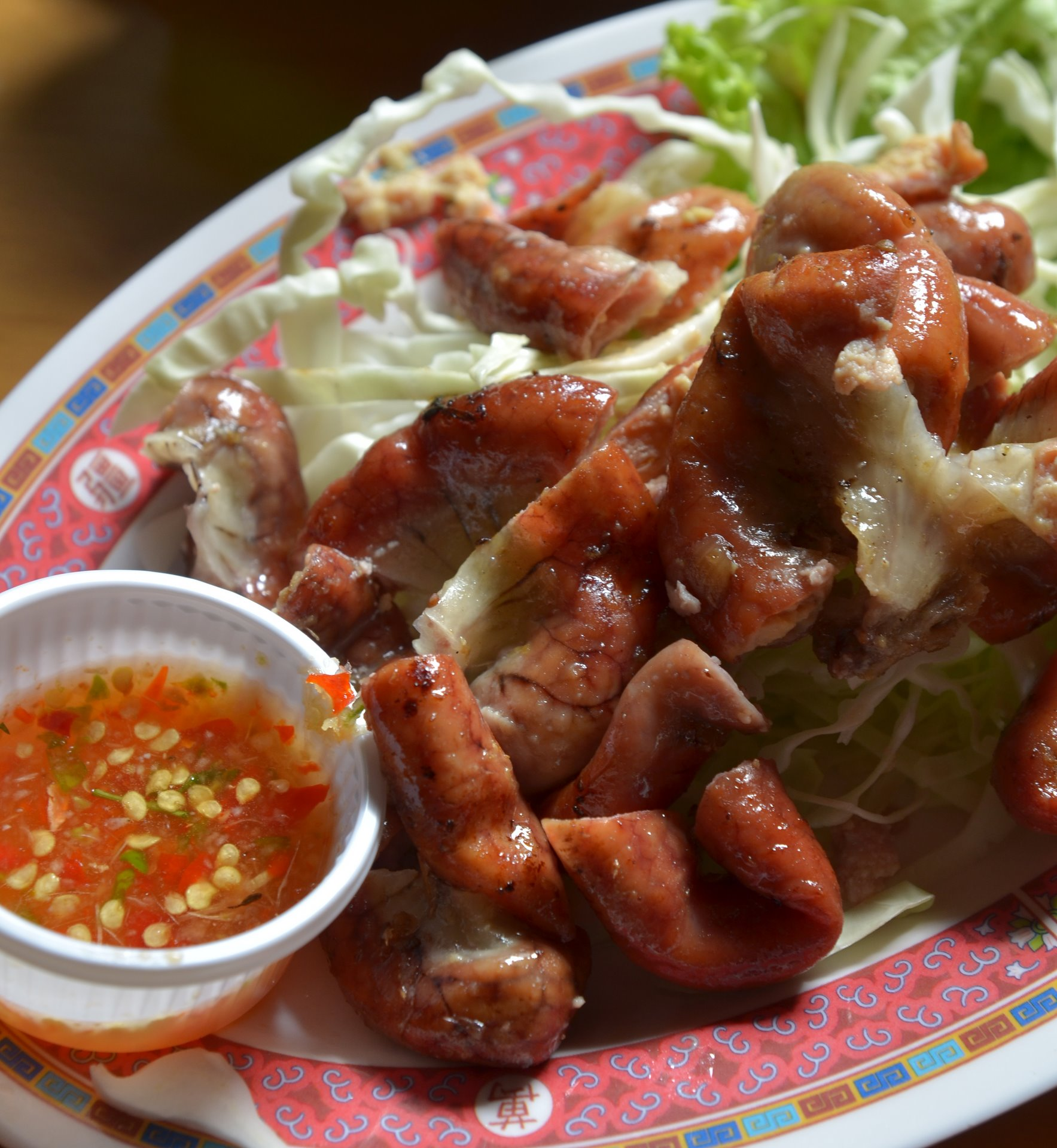 Sai mu thot (Thai script: ไส้หมูทอด): deep-fried pork intestines.